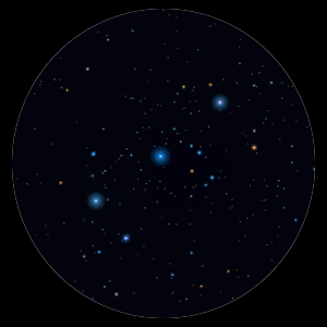 Orion Belt map